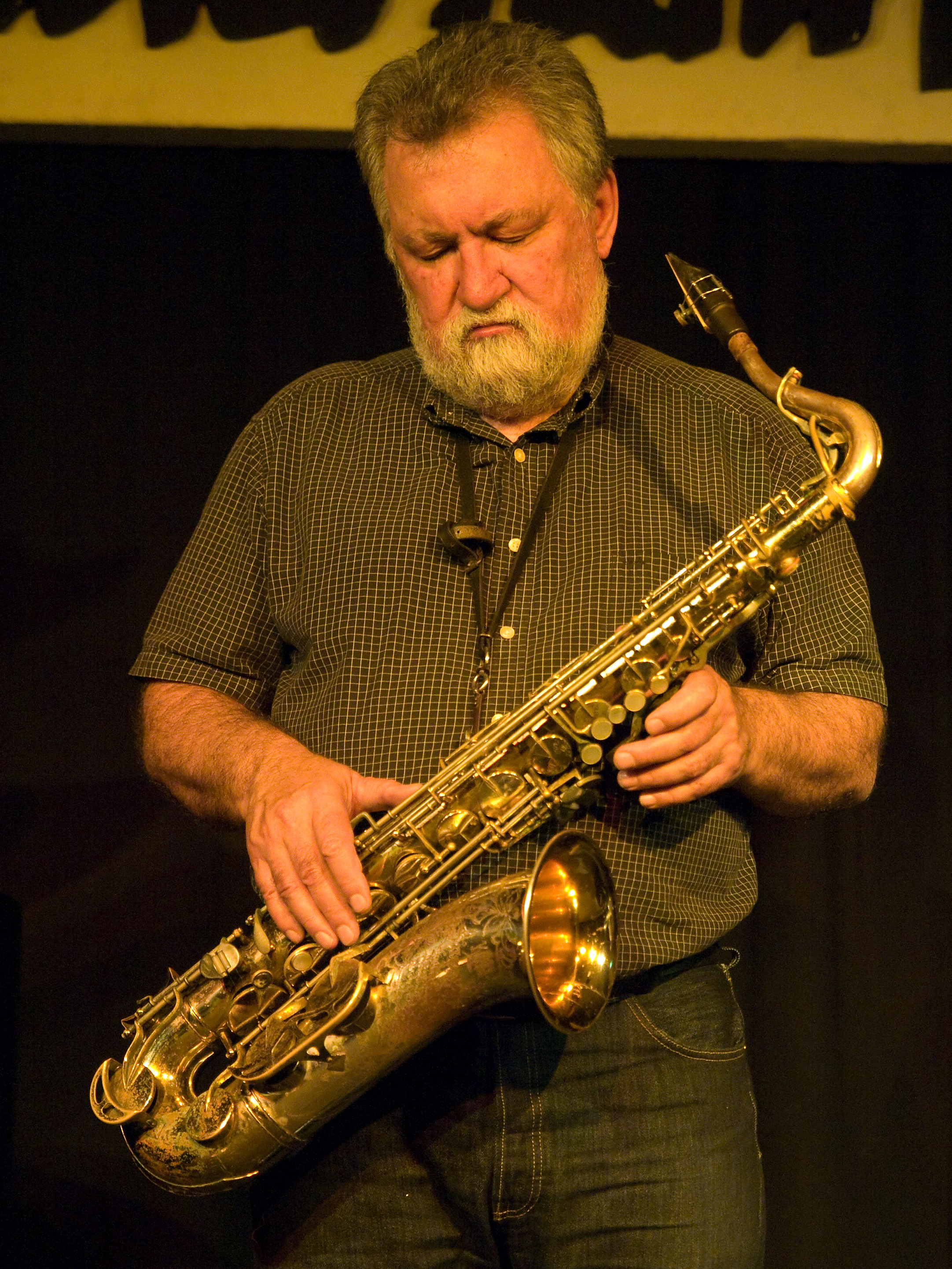 Evan Parker, saxophonist, picture taken in Jazz club "Unterfahrt" in Munich/Germany